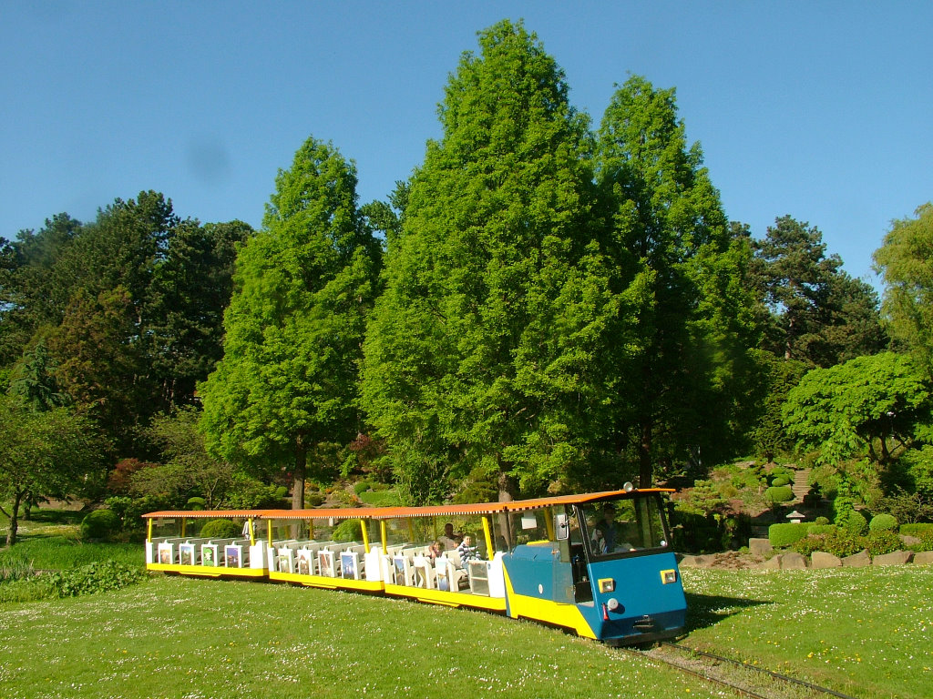 The Westfalenpark light railway in Dortmund